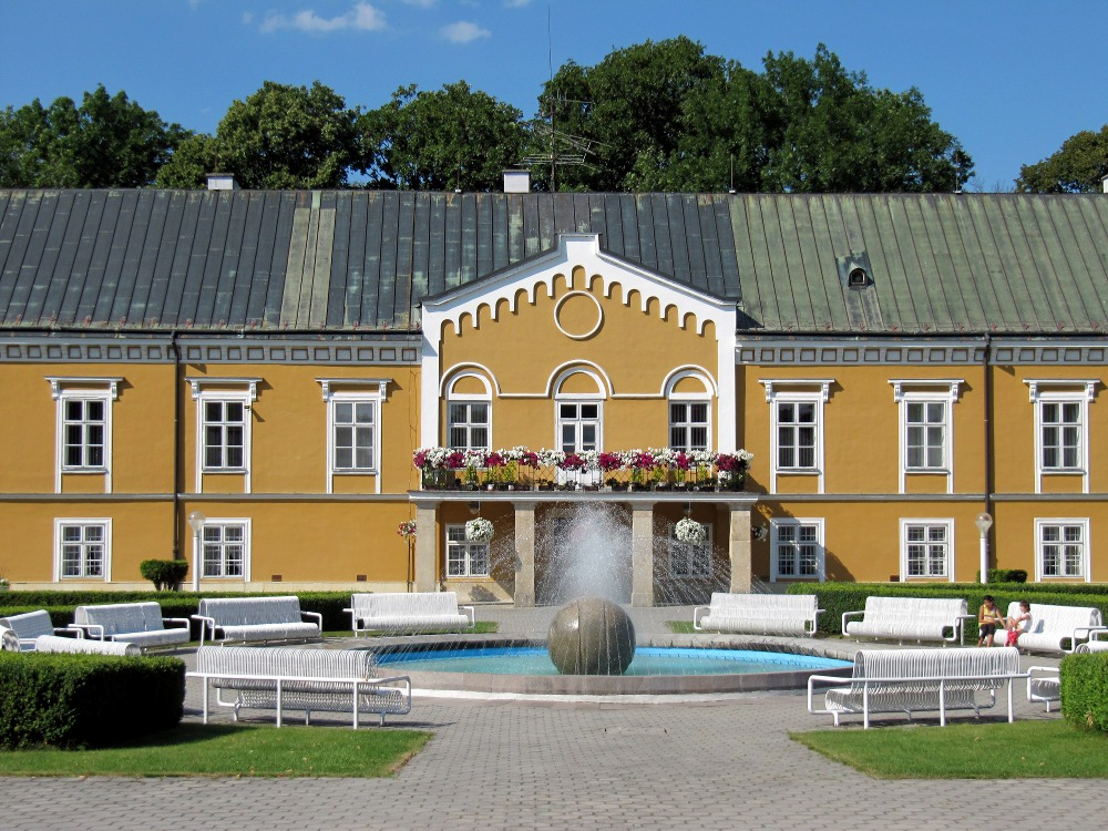 Manor-house in Lednické Rovne